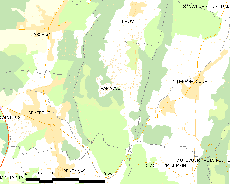 Map of French commune: Ramasse Map commune FR insee code 01317.png